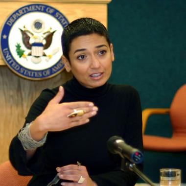 Iraqi-American writer and activist Zainab Salbi, the founder of Women for Women International, delivering a briefing in New York on "Between Two Women: Growing Up in the Shadow of Saddam."